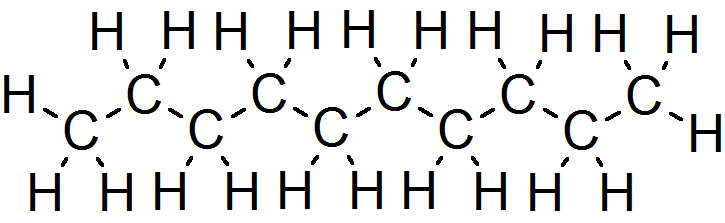 Structure of decane with angled bonds, with all atoms explicitly shown. Part of a series drawn in SymyxDraw with ACS settings.